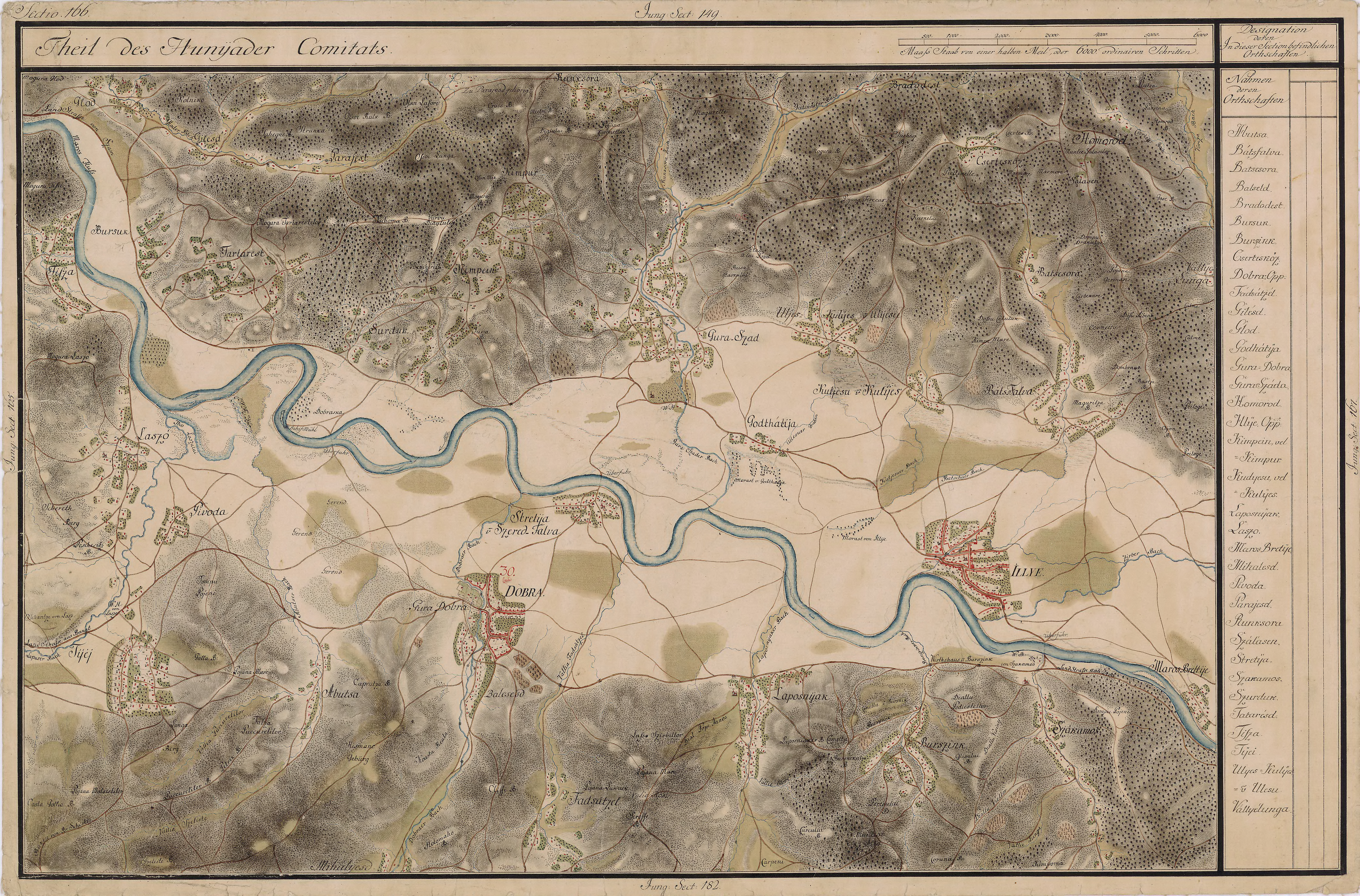 Grand Duchy of Transylvania, 1769-1773. Josephinische Landaufnahme pg.166